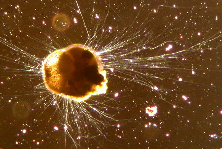 From English Wikipedia. Original description: Live Ammonia tepida benthic foraminiferan collected from San Francisco Bay. Phase-contrast photomicrograph by Scott Fay, UC Berkeley, 2005.